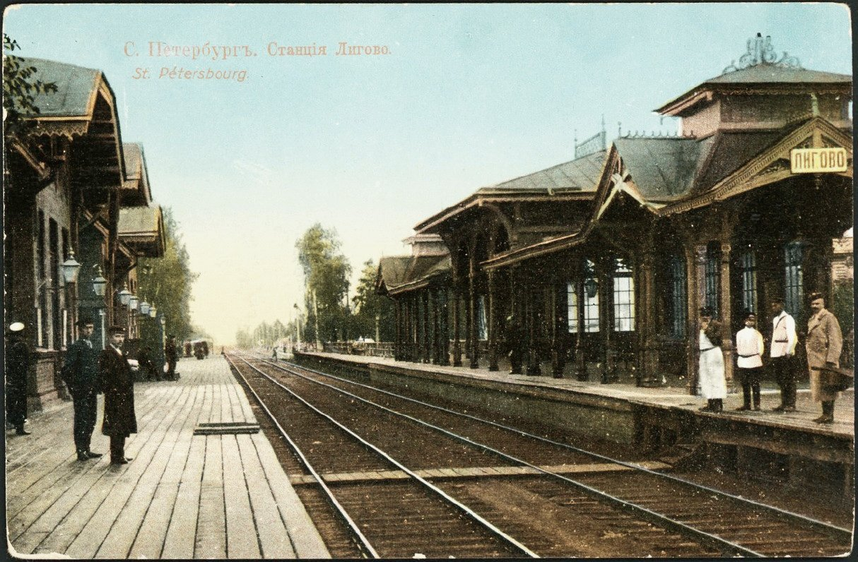 Ligovo station. Chromolitography, 9x14 mm